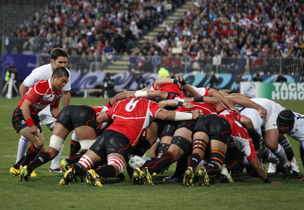 France and Japan in a scrum at the 2011 Rugby World Cup